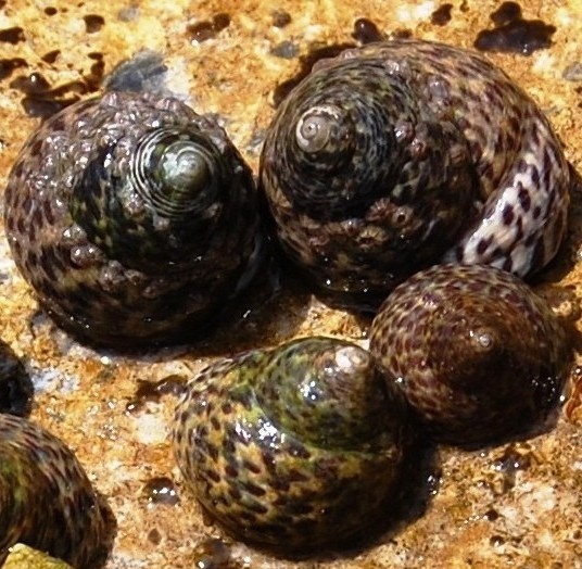 Phorcus turbinatus (Trochidae)Mediterranean Sea